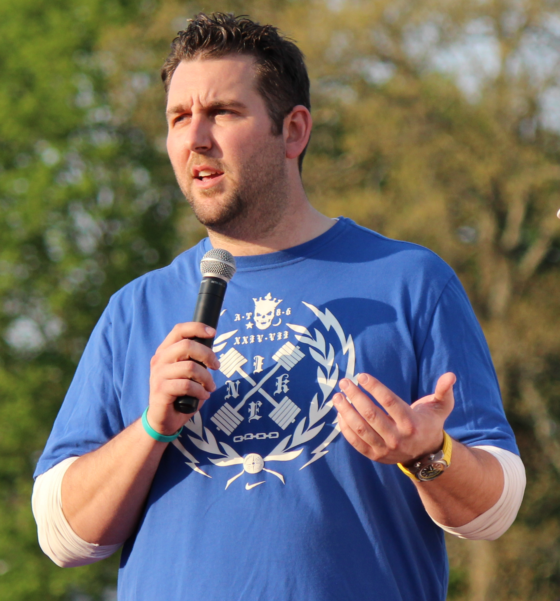 Mark Levoir speaks in Brockton, Massachusetts in May 2016